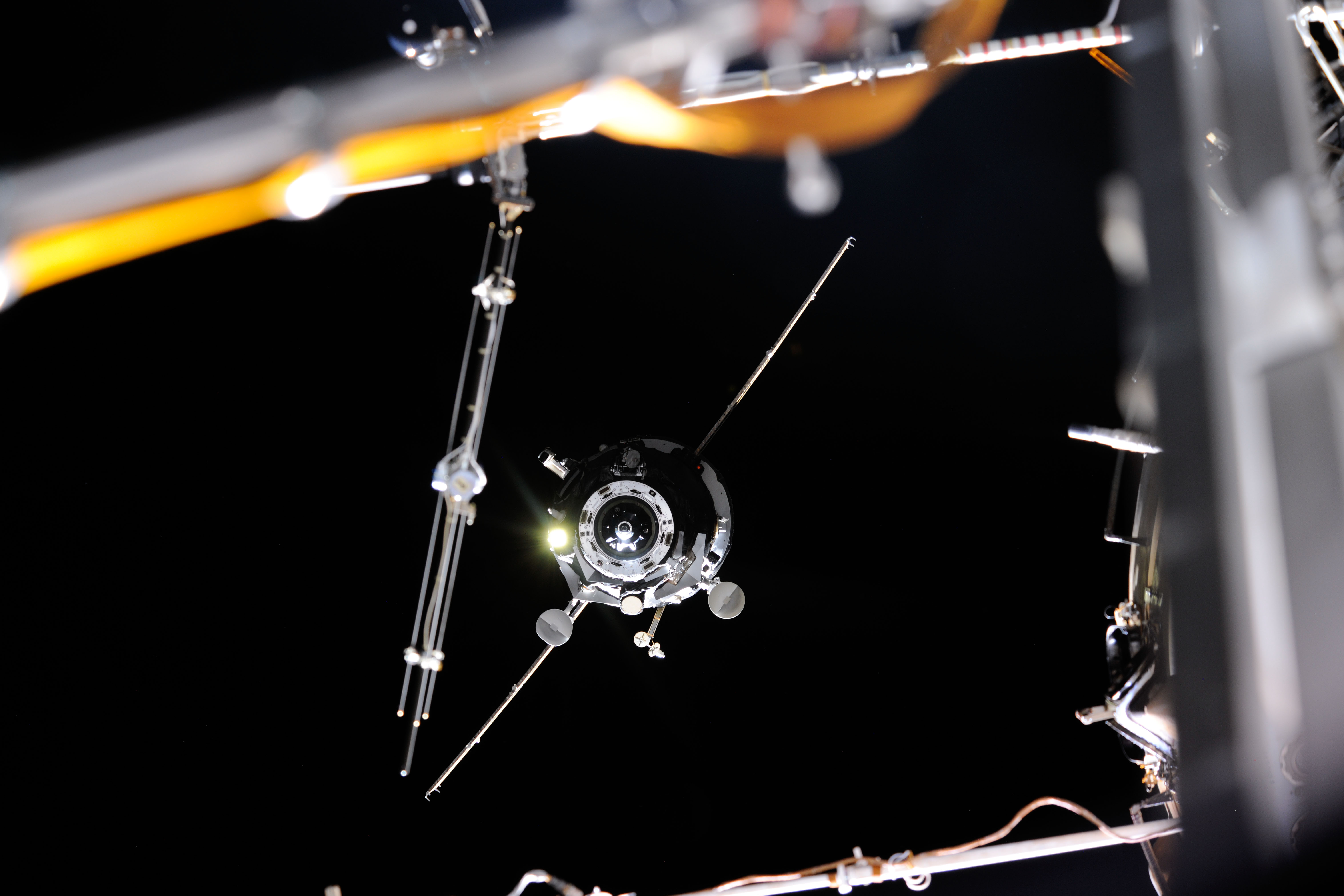 The Russian Progress 51 cargo spacecraft separated from the International Space Station at 9:58 a.m. EDT, June 11, 2013.